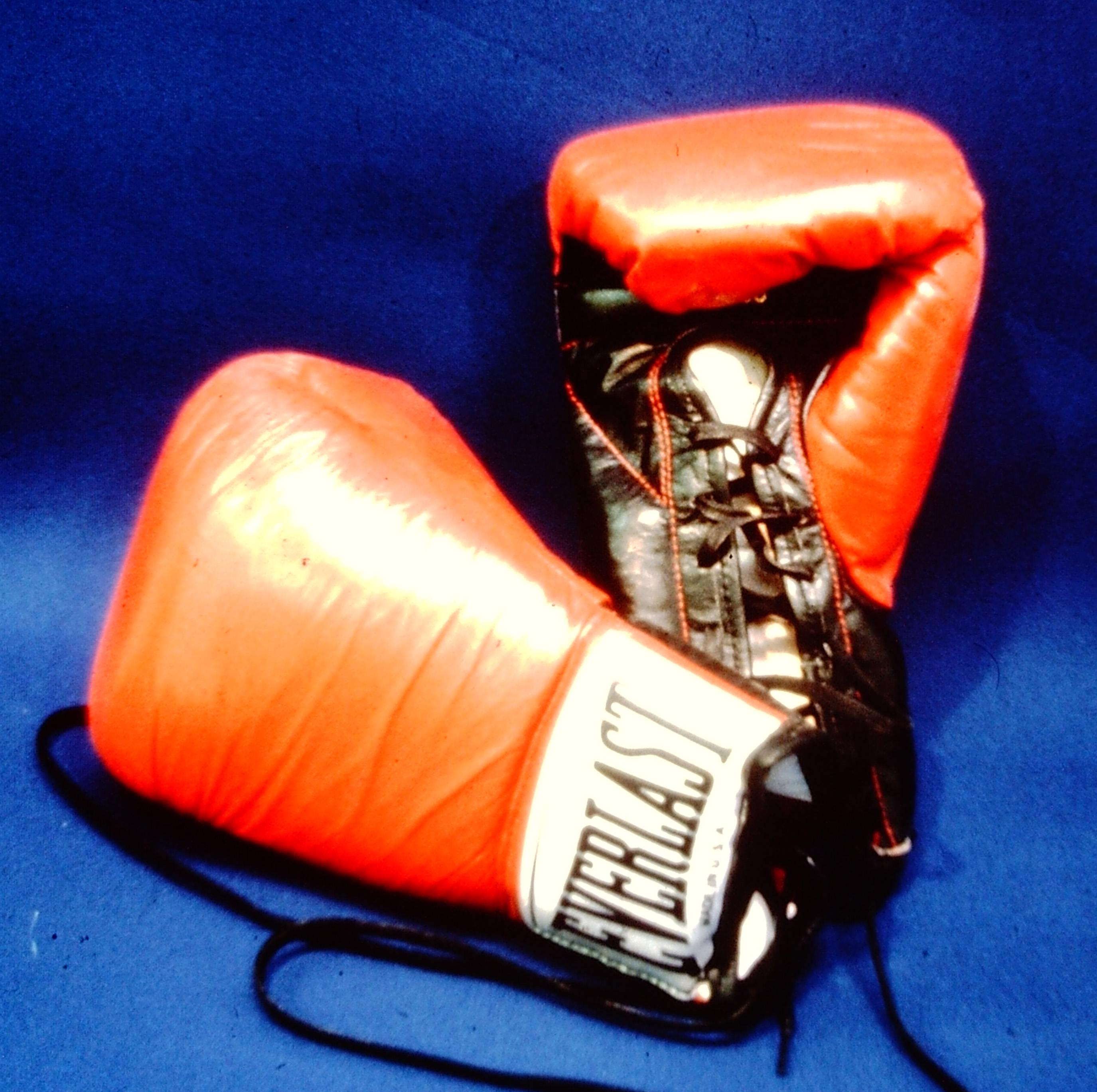 Everlast Everguard Eyesaver 8 once Professional Fight Gloves